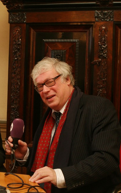 Dutch journalist Gerard Klaasen